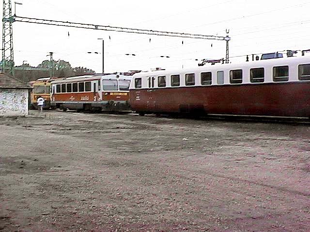 Half side view of Arpad railbus. Collectors and other electric appliances on the top are belong to a V63 engine, parking behind the Arpad.